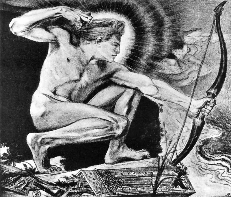 Apollo bringing down arrows of plague upon the Greeks, pencil drawing on paper, 10 × 12,5 cm, private property.